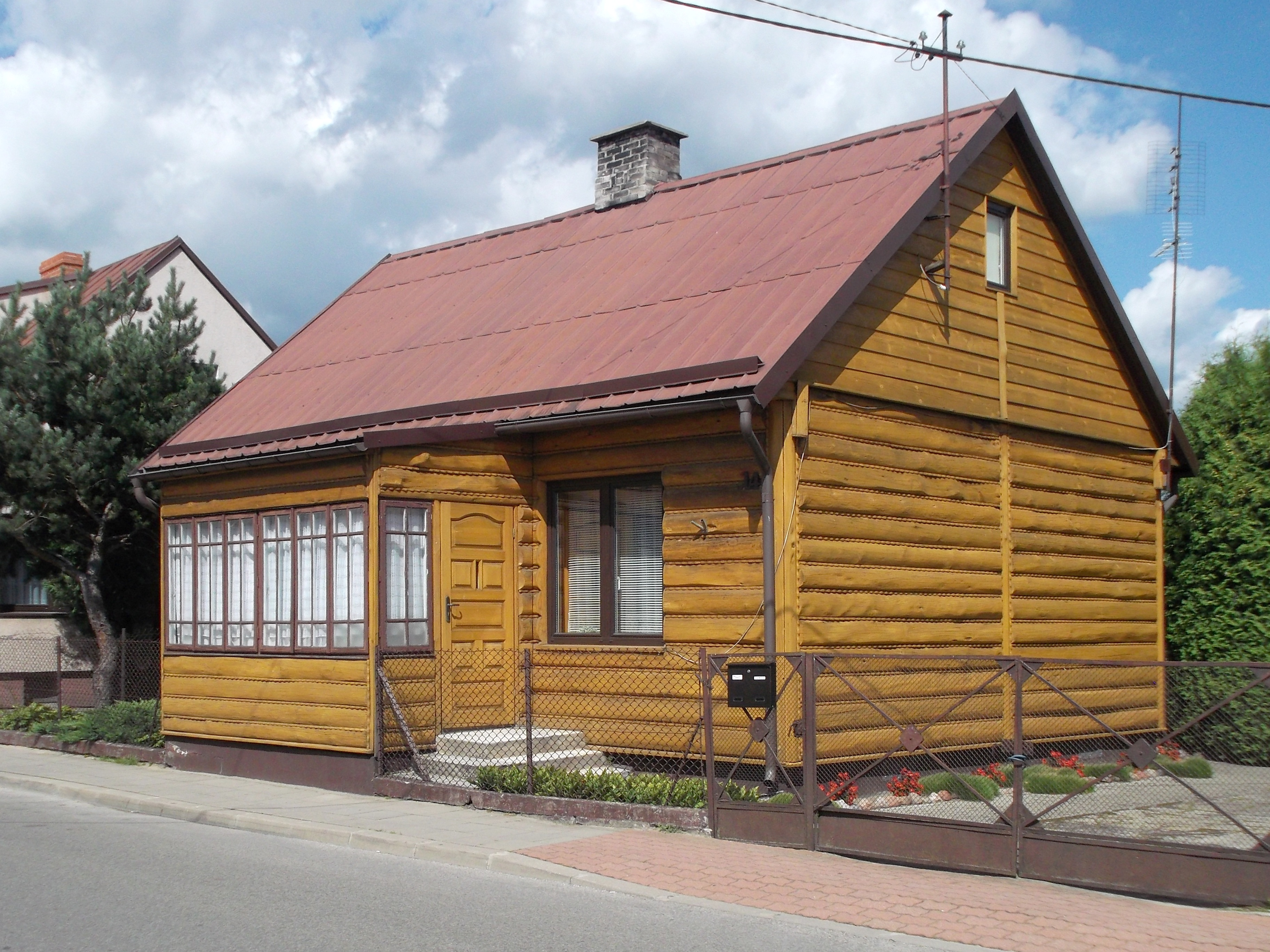 Wooden house, Nadrzeczna Str. in Augustów, Poland.